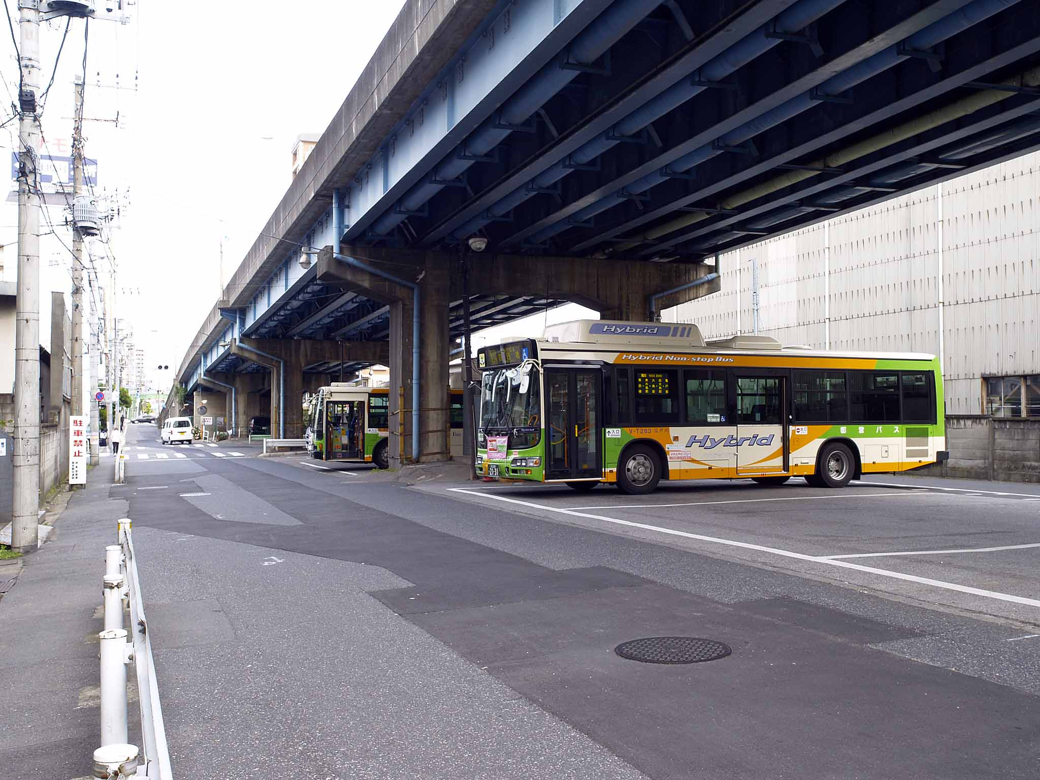 Toei Bus Kasai-bashi Yard, located at Higashi-suna, under of Kasai bridge.